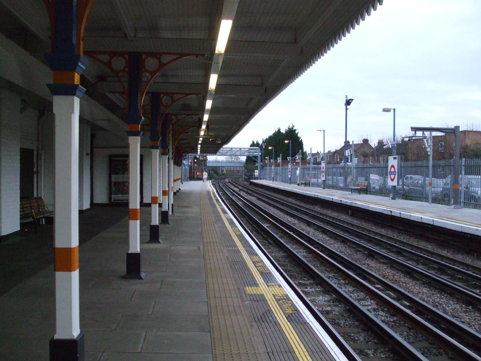 South Woodford tube station looking south ("westbound")